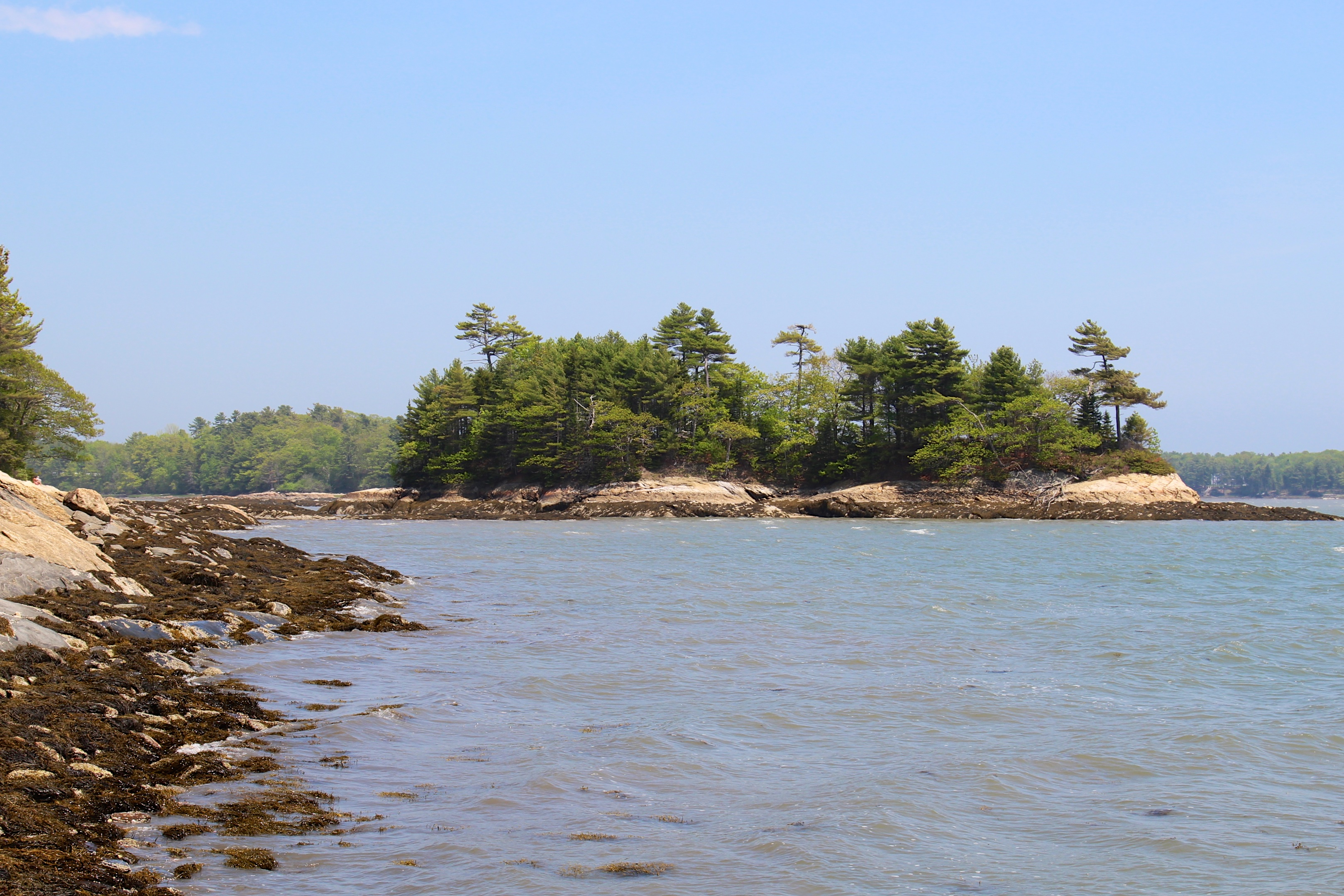 Wolfe's Neck Woods State Park @ Freeport, Maine